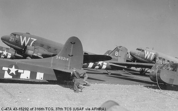 Douglas C-47A-80-DL Skytrain 43-15292 of the 37th Troop Carrier Squadron, 316th Troop Carrier Group, at RAF Cottesmore, England. Just before D-Day, June 1944. Ford CG-4A-FO 43-40214 Waco Glider in front being moved by ground personnel.